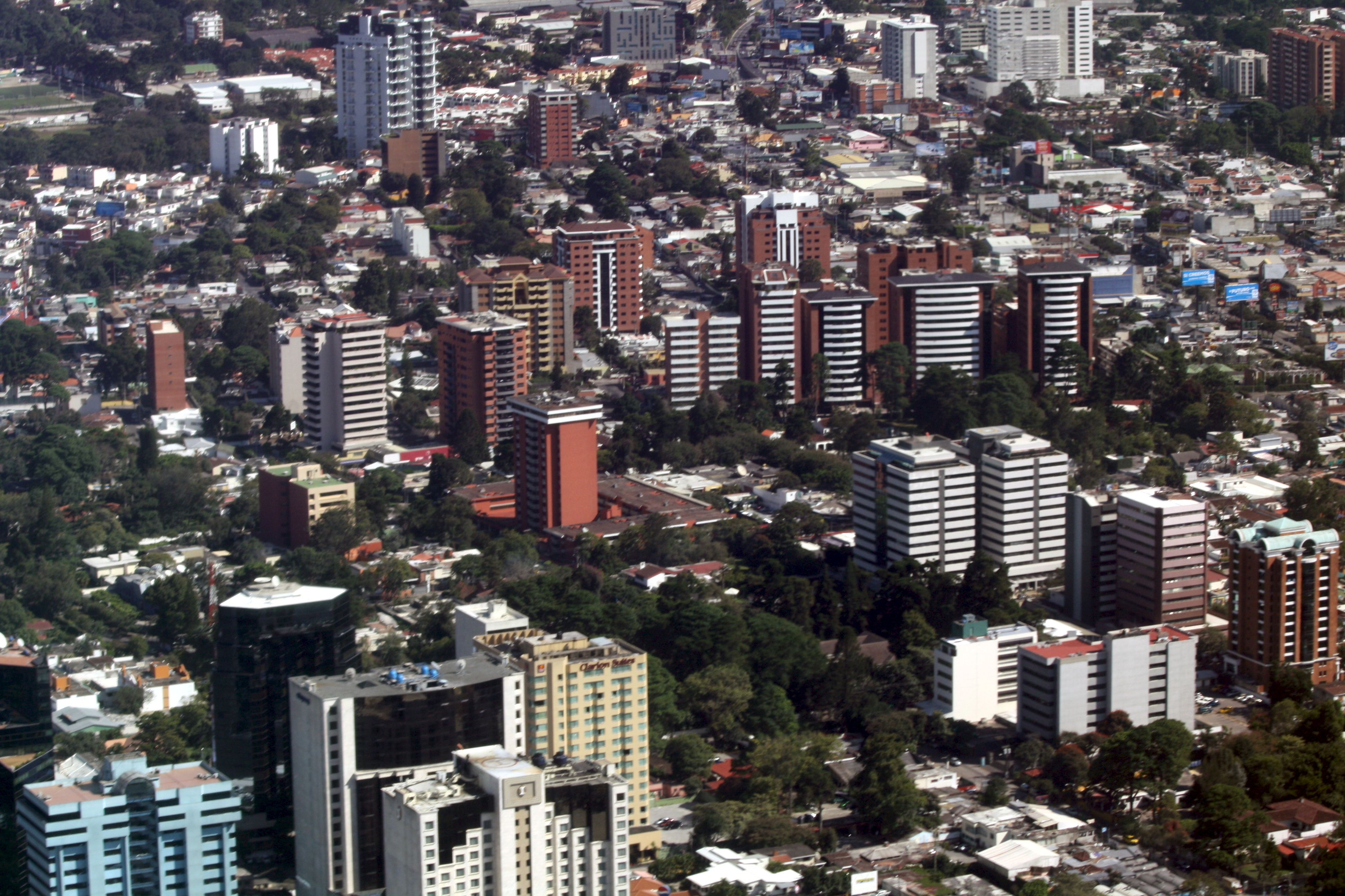 Areal view of Zone 10 Guatemala City as seen from an airplane taking off of La Aurora International Airport.